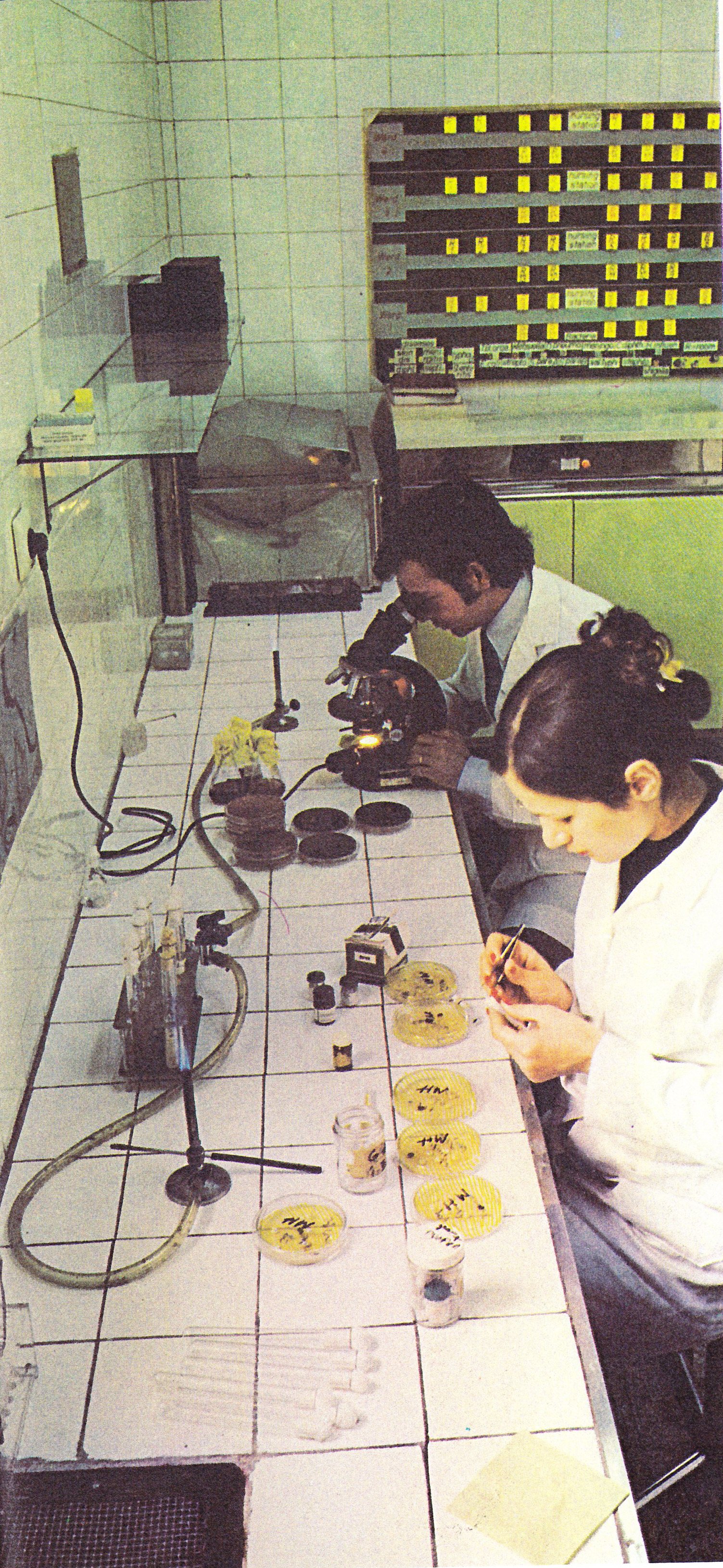 laboratoty of the pediactric hospital, Tehran, Iran